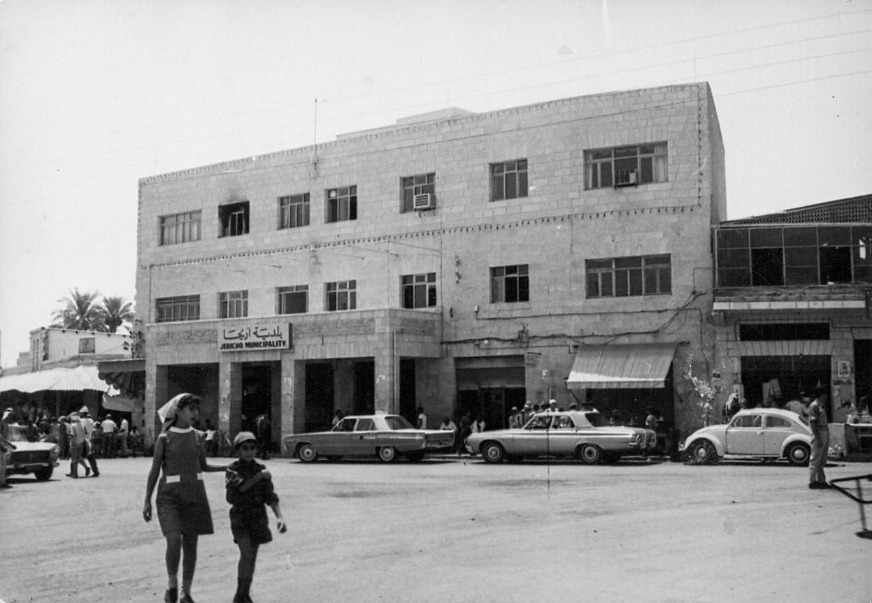 The municipality of Jericho building and its surrounding two weeks (approximately) after the Six Day War.